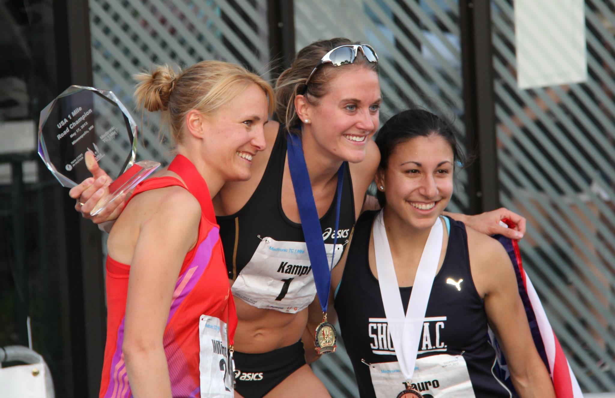 TC1-mile victory, Kampf, 25, a Minneapolis resident and the runner-up in the event, clocked 4 minutes, 36.9 seconds to out-leg Alisha Williams of Denver, Colo., second at 4:39.6, and Detroit's Danielle Tauro, third with 4:40.0. [1]